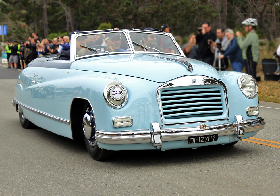 Isotta Fraschini Tipo 8C Monterosa Boneschi Cabriolet 1948 (chassis no 4?) at Pebble Beach 2017.